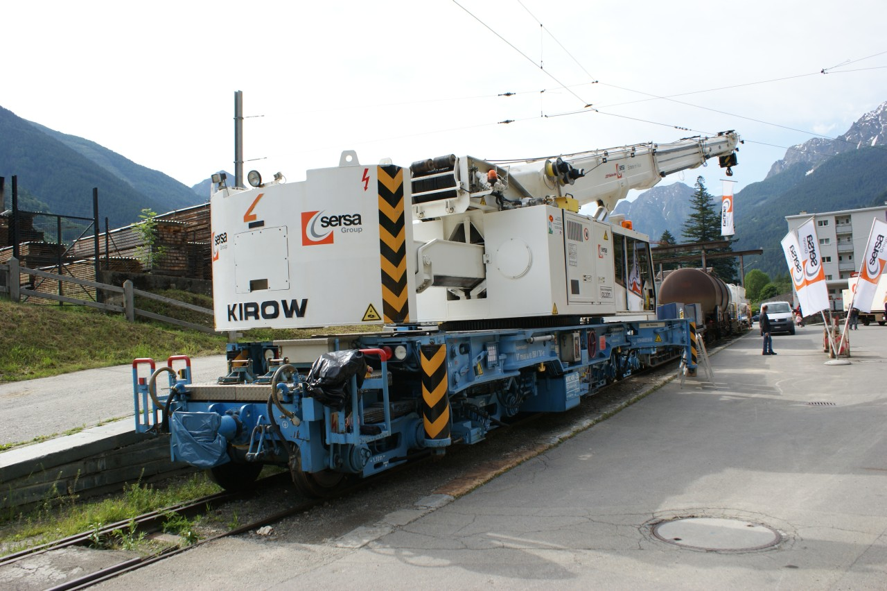 Kirow crane type KRC 458-2S for standard and meter gauge, registered in Switzerland for SERSA as VTmaas 80 85 9581 701-2, on display at Poschiavo for a Berninabahn centenary event.